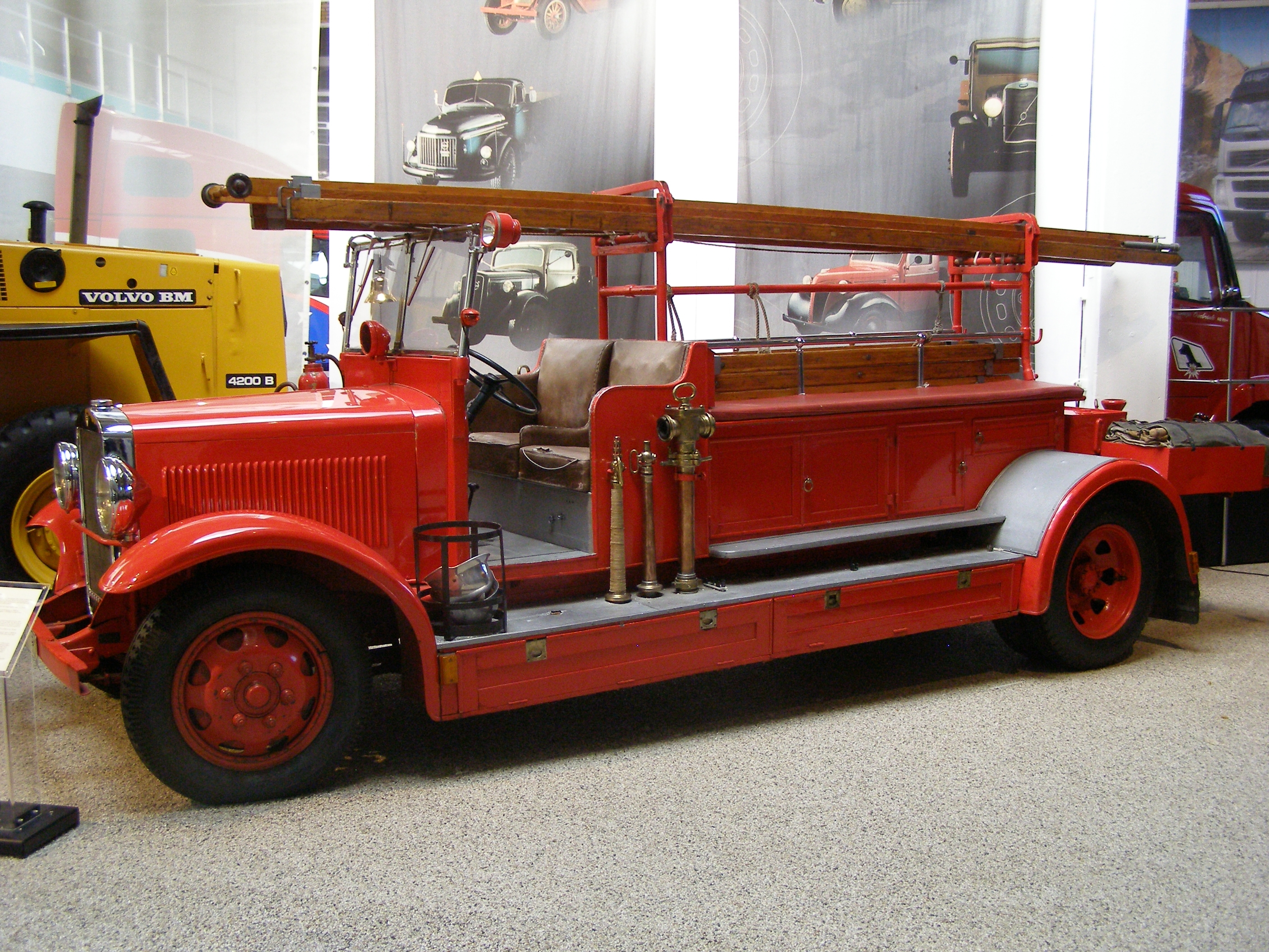 Gothenburg - Volvo Museum - Volvo LV70